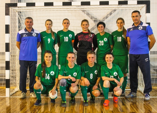 Group photo of players and coaching staff of female futsal club "PZMS"